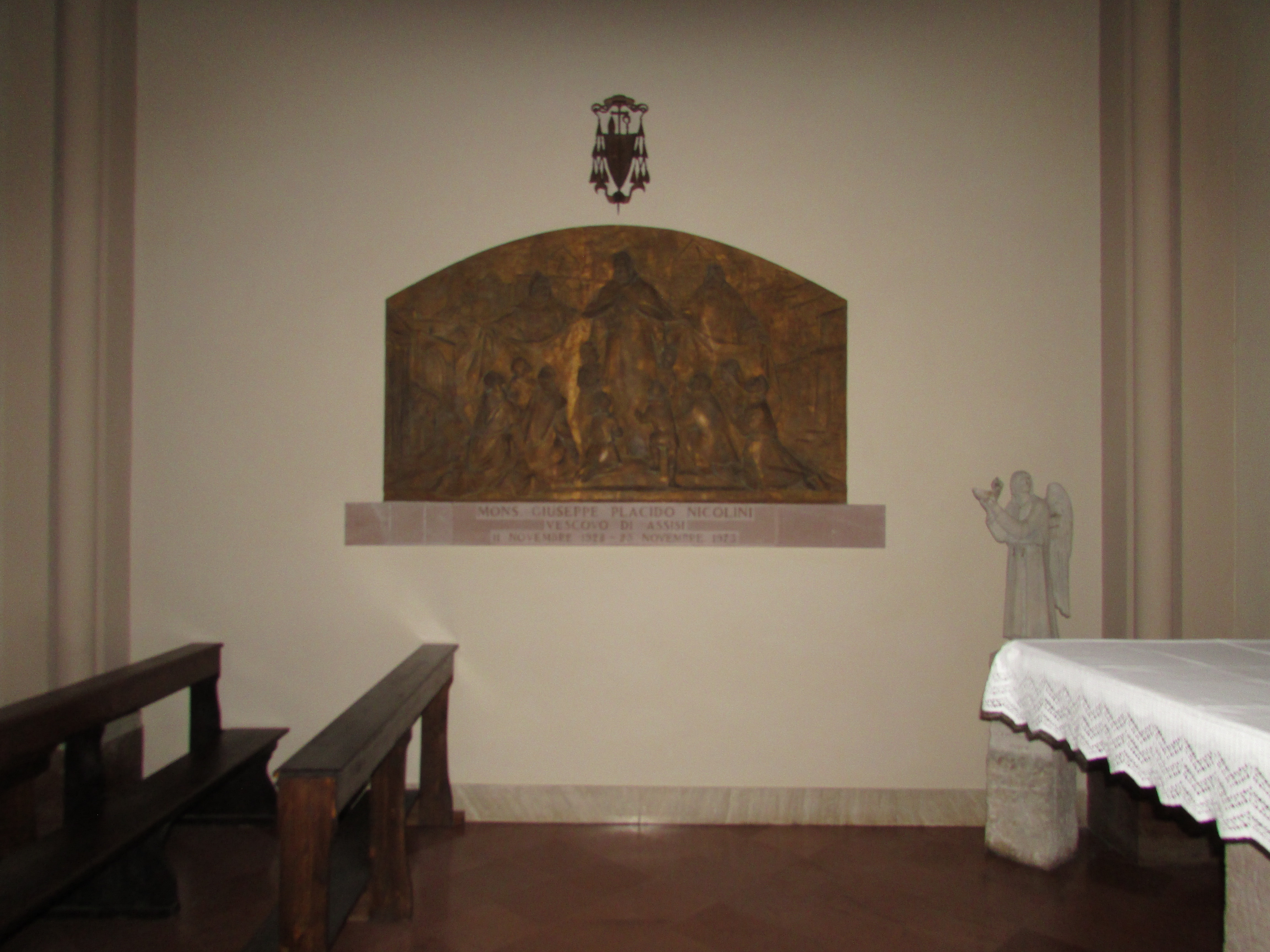 Chapel memorial to Mons Giuseppe Placido Nicolini, Vescovo di Assisi. 11 November 1923 - 23 November 1973 in San Rufino in Assisi, Italy.